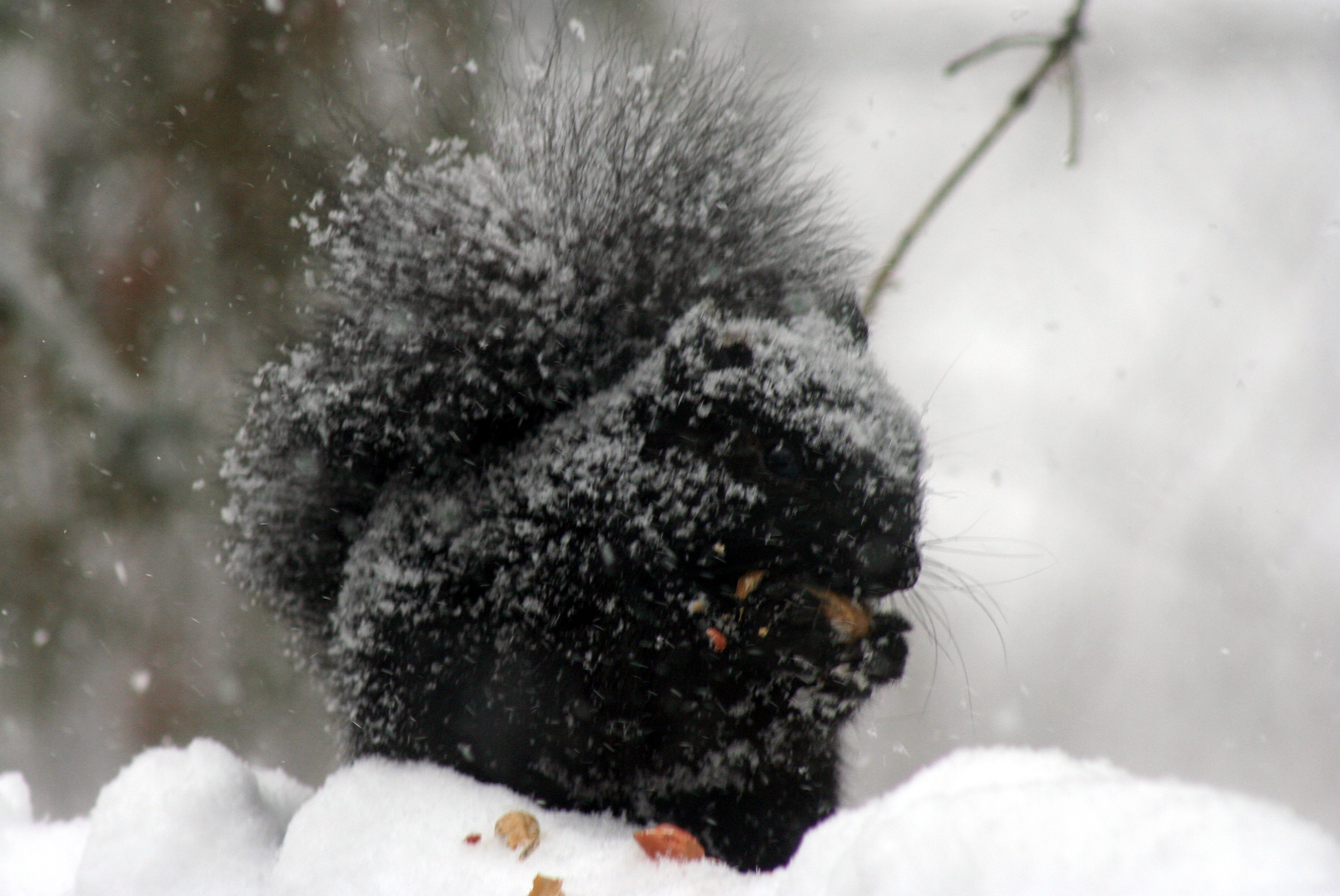 The squirrels have been leaving the peanuts to the Blue Jays today, except for this intrepid black one.